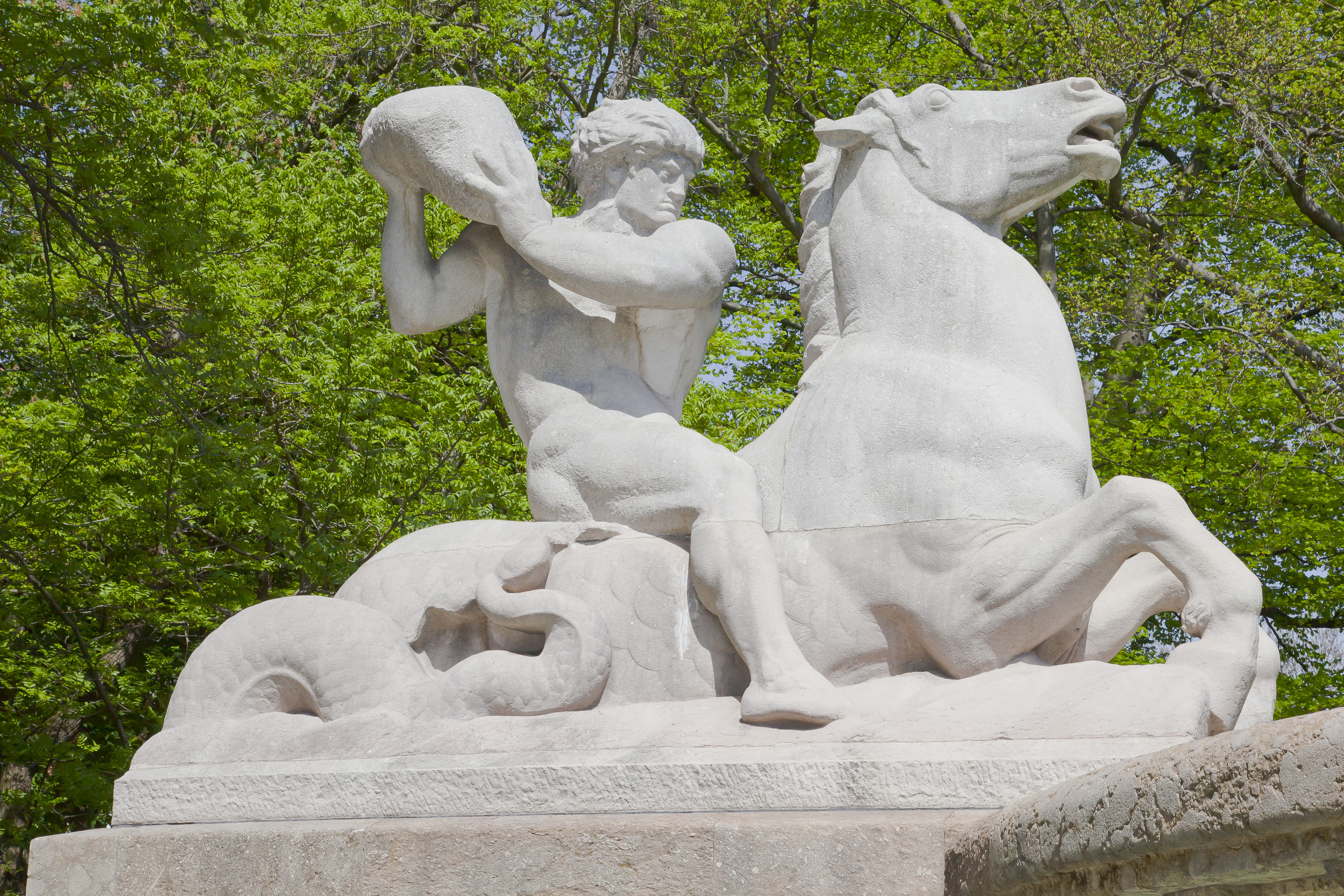 Wittelsbacher Fountain, Lenbachplatz, Munich, Germany